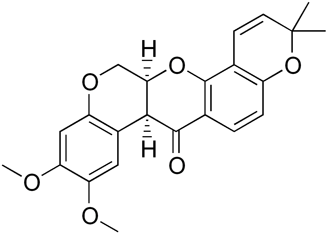 chemical structure of deguelin